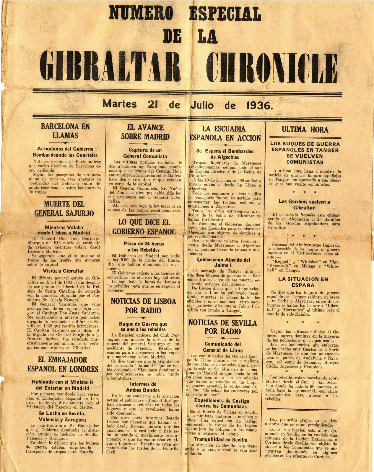 Gibraltar Chronicle 1936 spanish edition